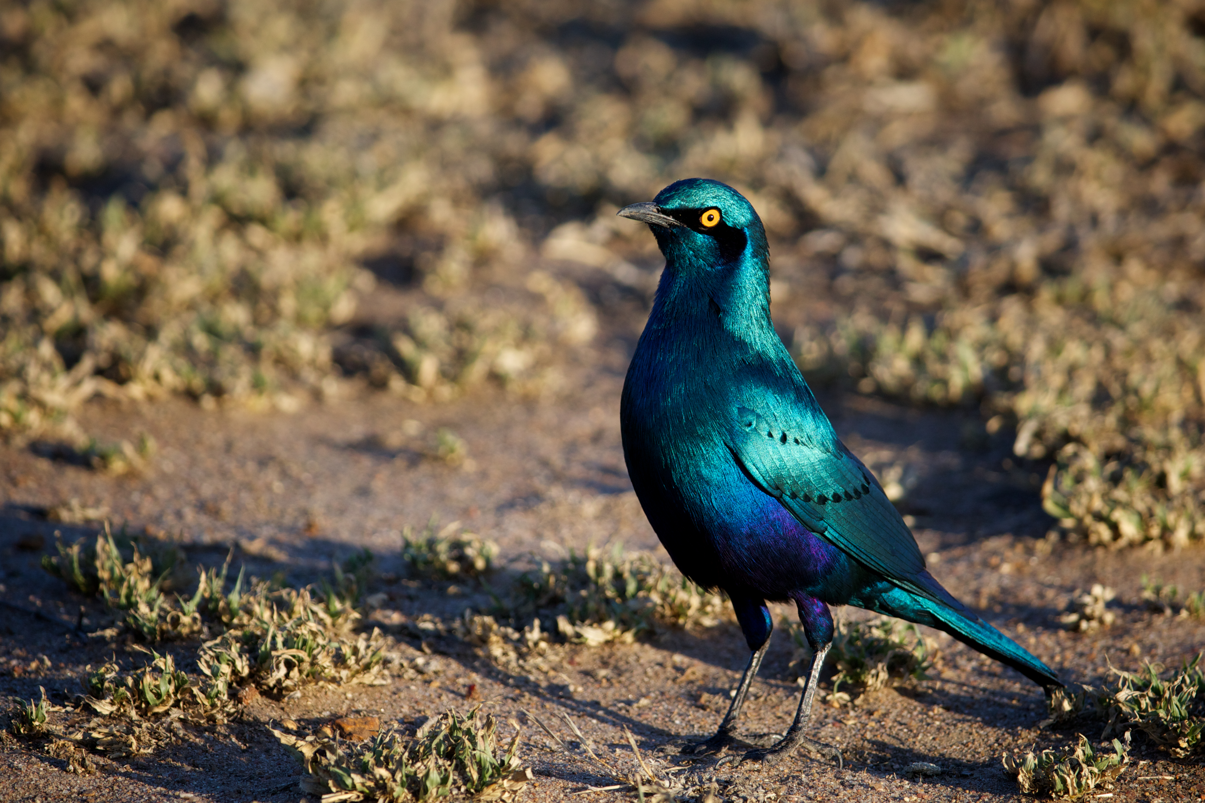 A Greater Blue-eared Starling in Mpumalanga Rural, Mpumalanga, South Africa.